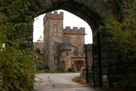 Searles Castle Gate by photographer David Kolifrath